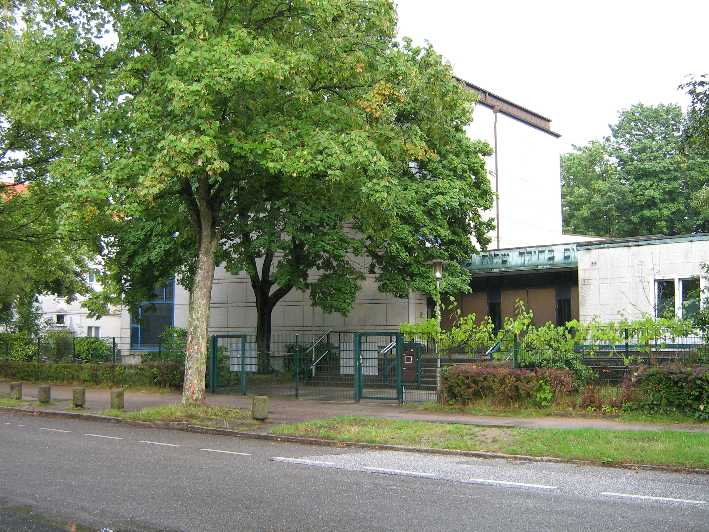 Synagogue Hohe Weide Hamburg